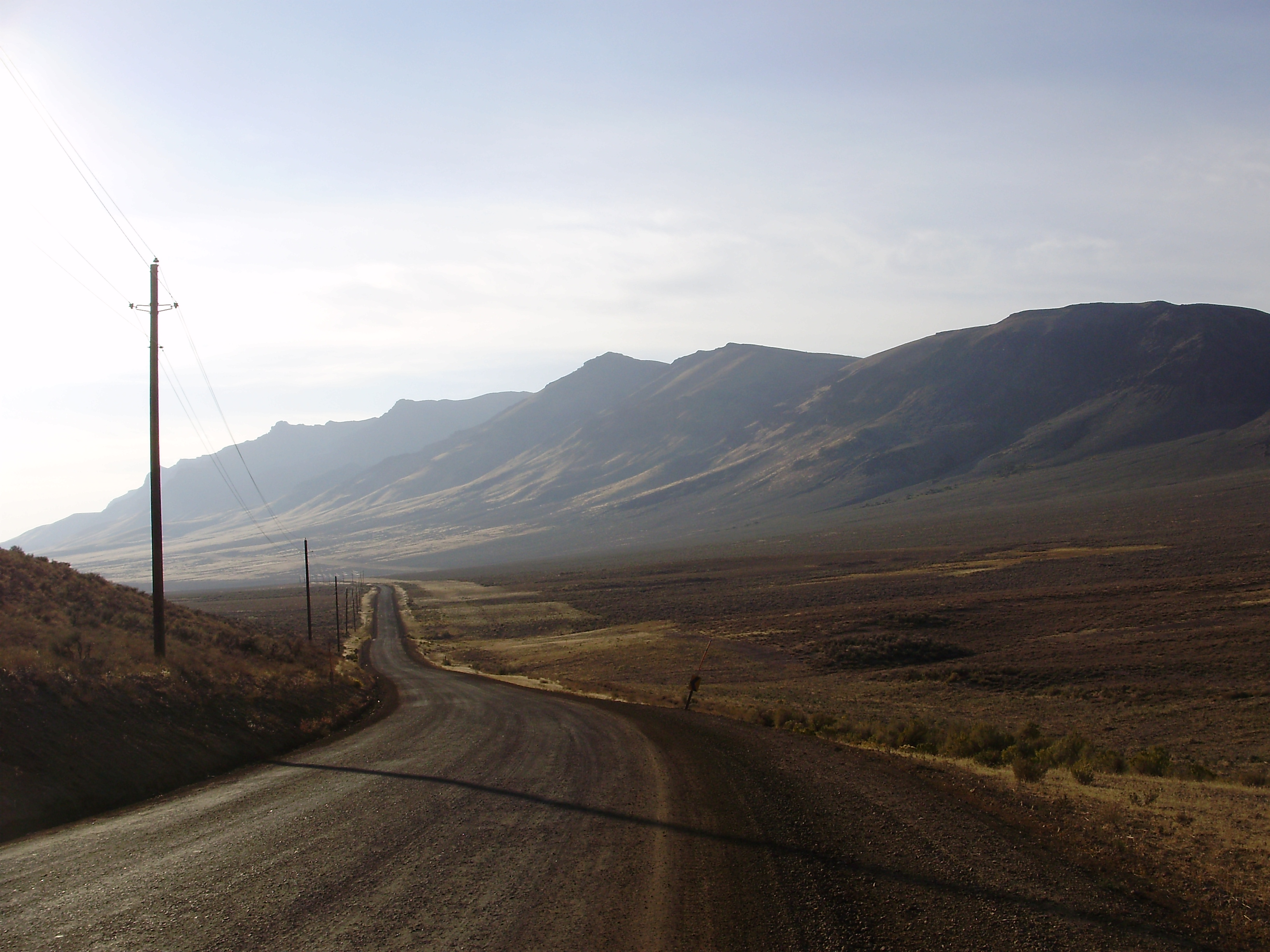 View west along Elko County Route 724 (Midas Road) heading towards the Snowstorm Mountains, Nevada